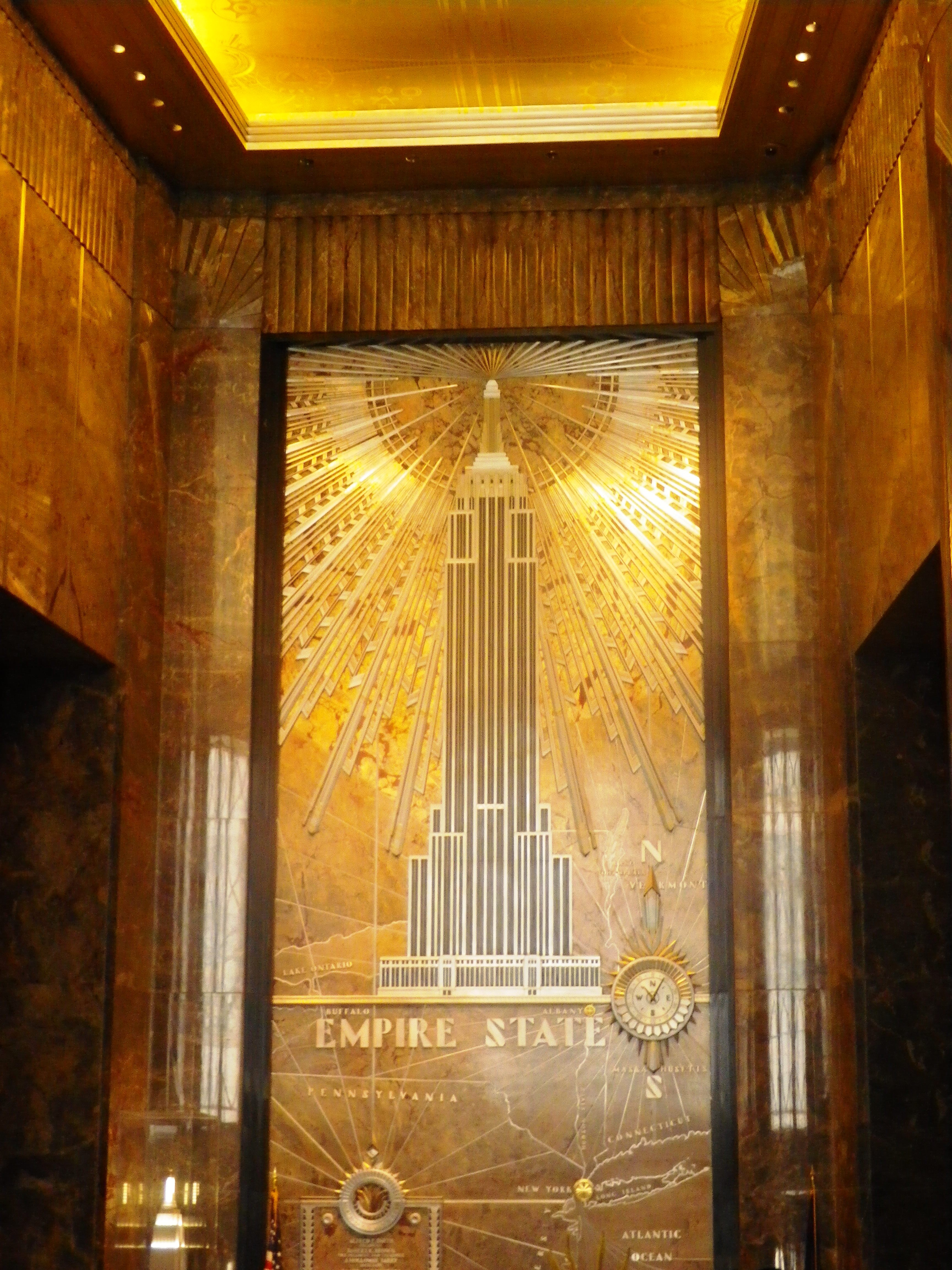 Interior of the Empire State Building in New York City.